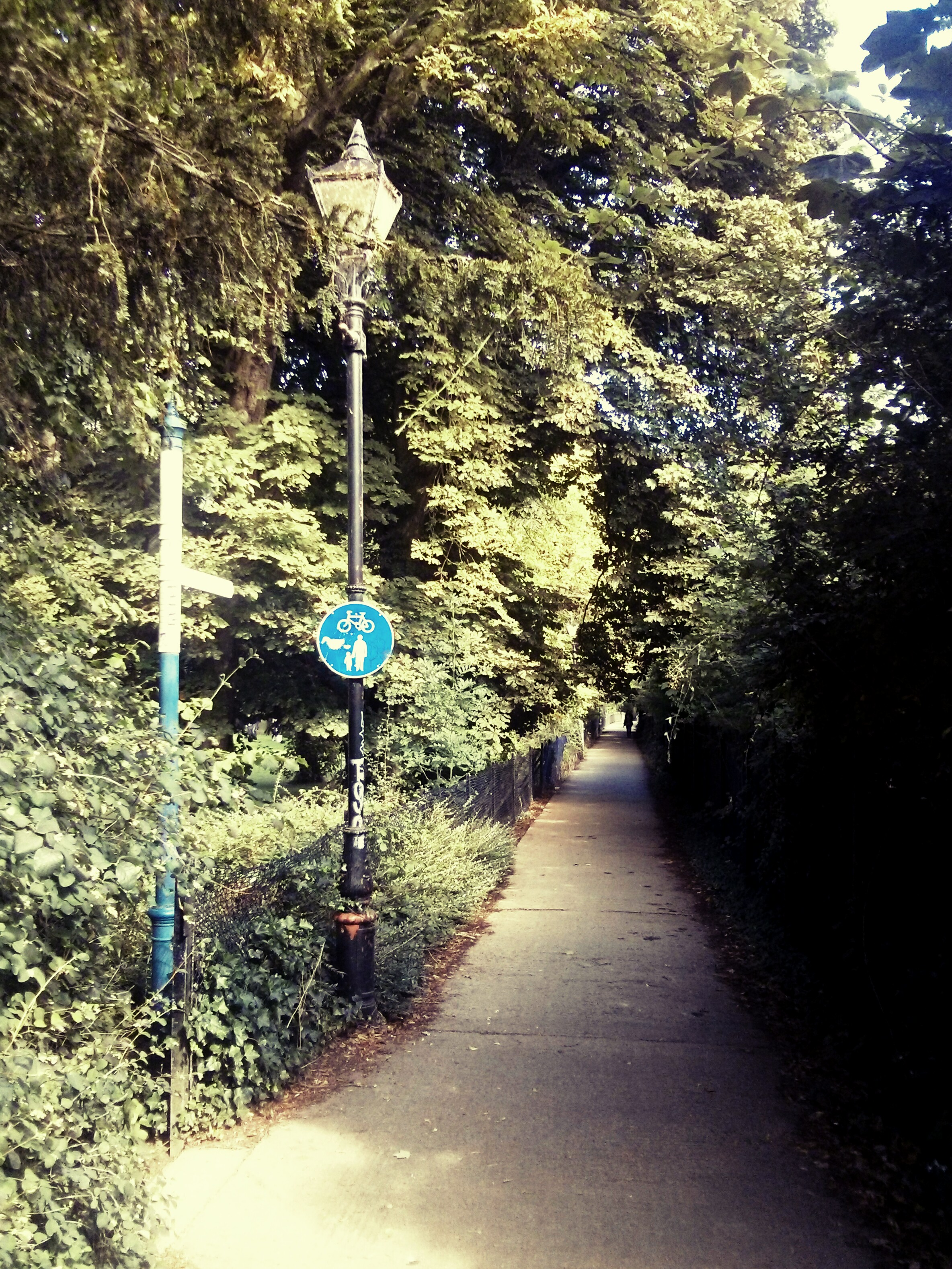 Oxford Marston Path towards Marston